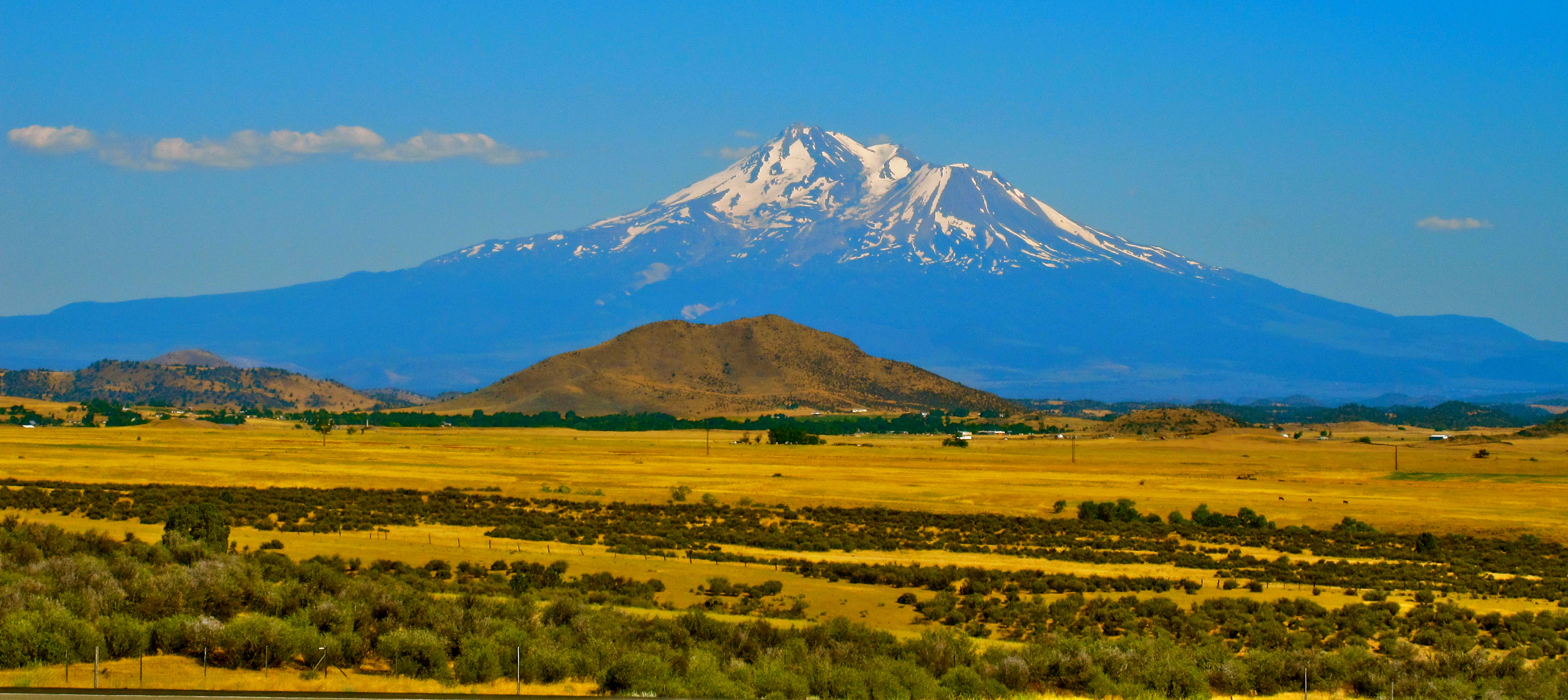 Mount Shasta, a volcano in the Cascade Volcanic Arc of California, seen from Interstate 5 just south of the Oregon border near Yreka.